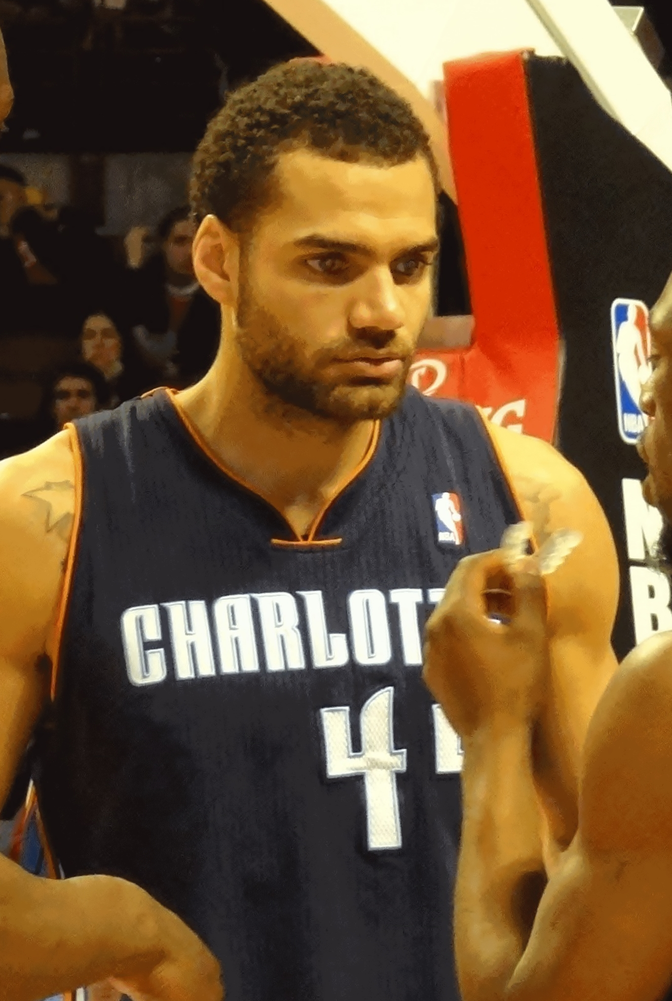 NBA Player Jeffery Taylor during the 12-31-12 Bobcats - Bulls game.